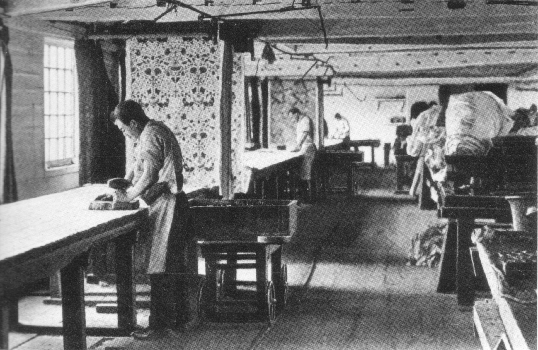 Printing chintzes at Merton Abbey c. 1890, first published in Morris & Company, A Brief Sketch Of The Morris Movement and of the Firm Founded by William Morris to Carry Out His Designs and the Industries Revived or Started by Him. Written To Commemorate The Firm's Fiftieth Anniversary In June 1911. Privately printed at the Chiswick Press for Morris & Company, 1911. (Date information from Gillian Naylor, William Morris by Himself: Designs and Writings, London, Little Brown & Co. 2000 reprint of 1988 edition.)